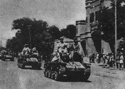 PLA Army entering Xi'an city in Chinese Revolution(1945-1949)